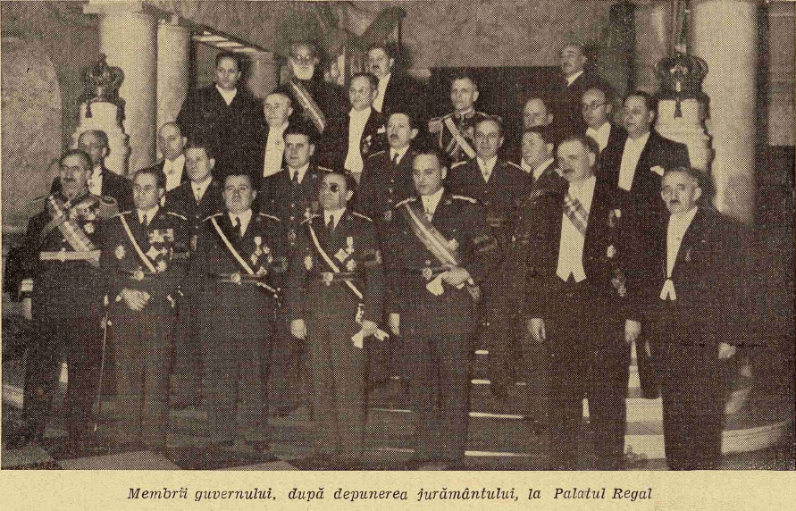 Armand Călinescu after swearing the oath